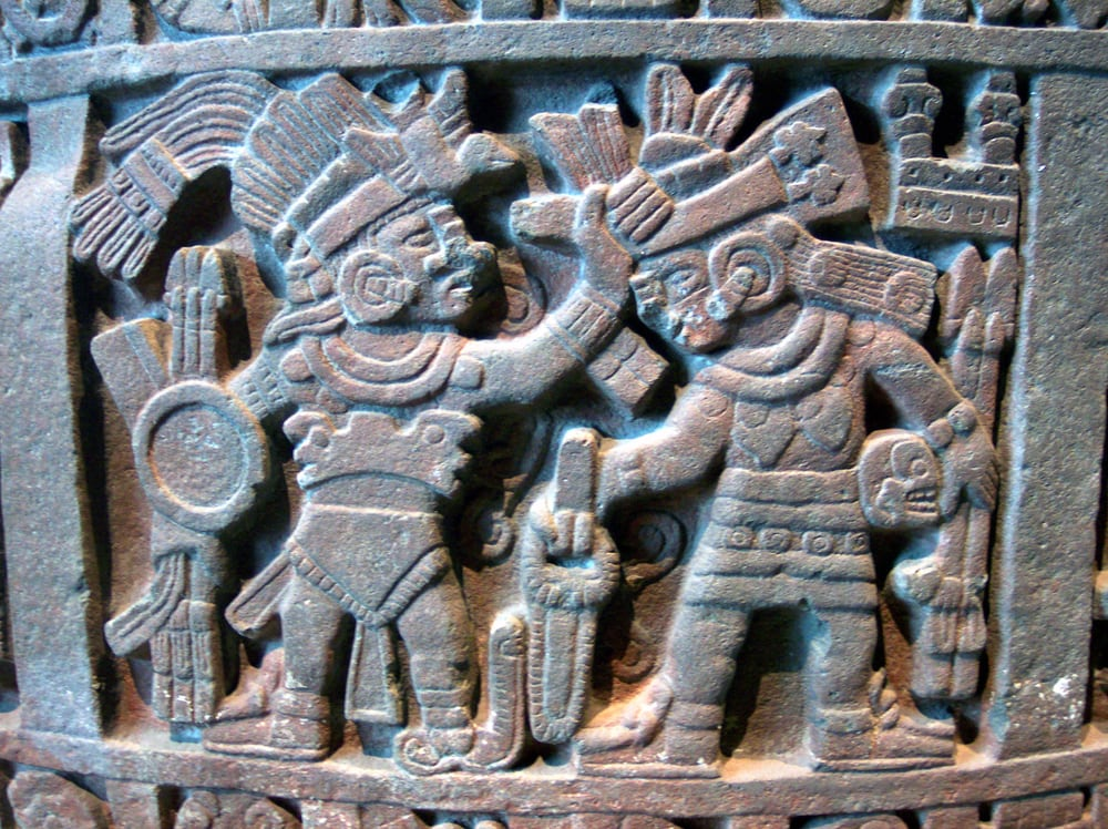 1 panel of side carvings